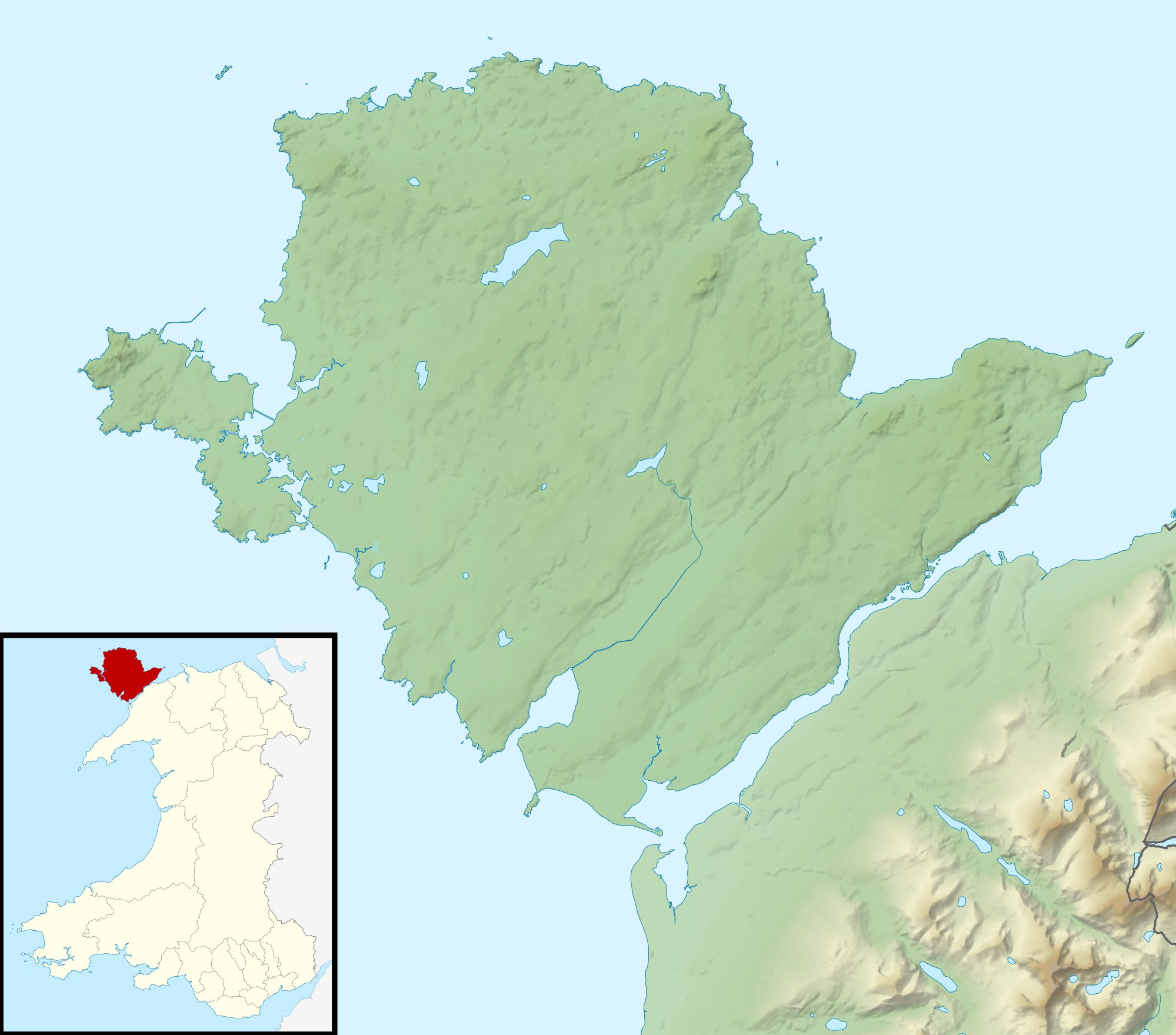 Relief map of Anglesey, UK. Equirectangular map projection on WGS 84 datum, with N/S stretched 165% Geographic limits: West: 4.75W East: 4.00W North: 53.45N South: 53.05N